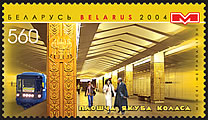 Stamp of Belarus